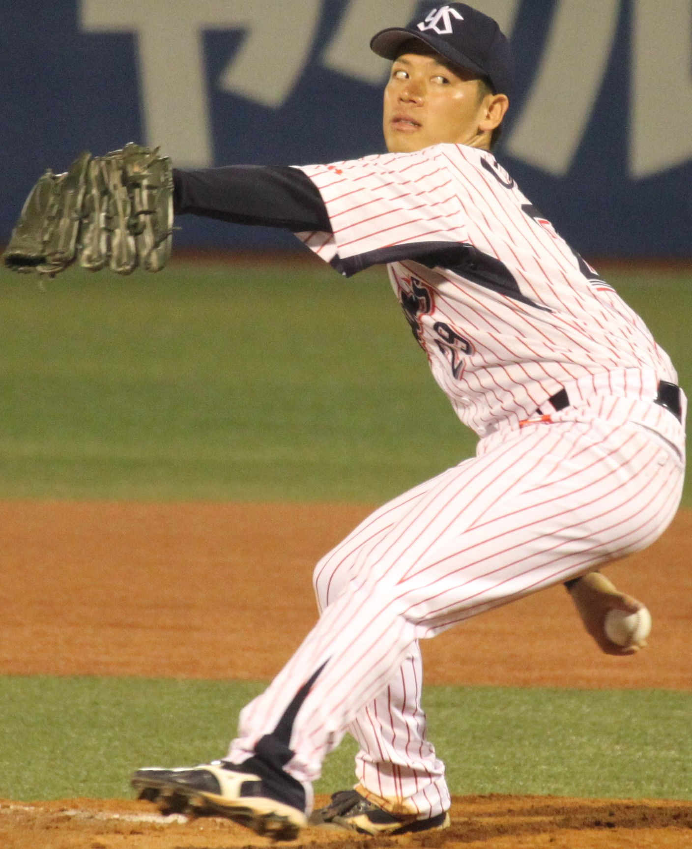 Yasuhiro Ogawa, pitcher of the Tokyo Yakult Swallows, at Meiji Jingu Stadium.